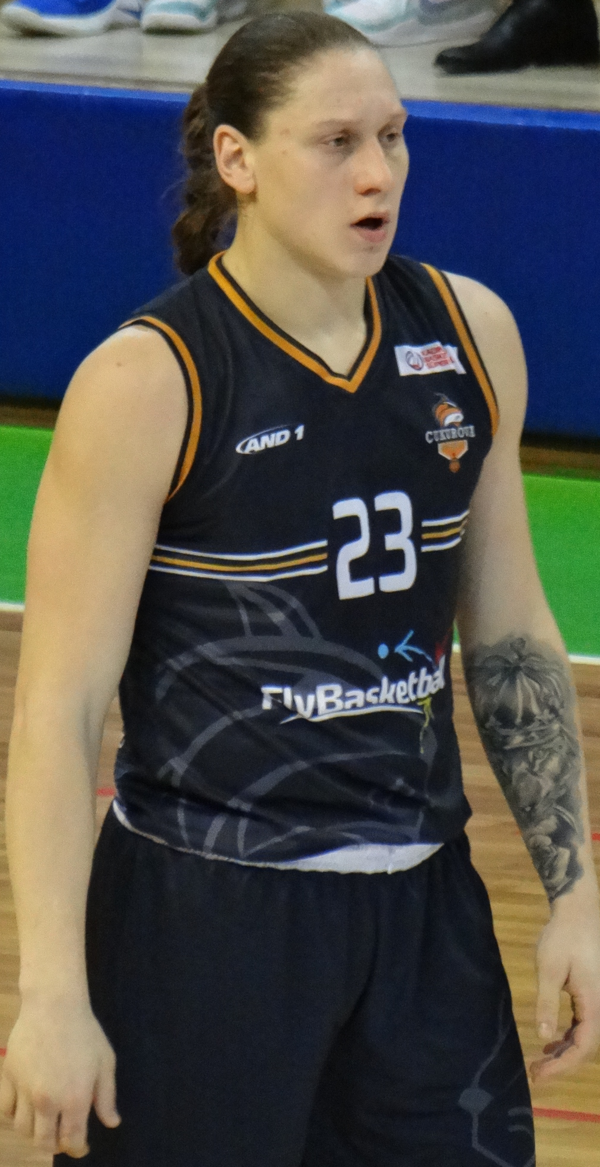 Alina Iagupova 23 Çukurova BK TWBL 20181229